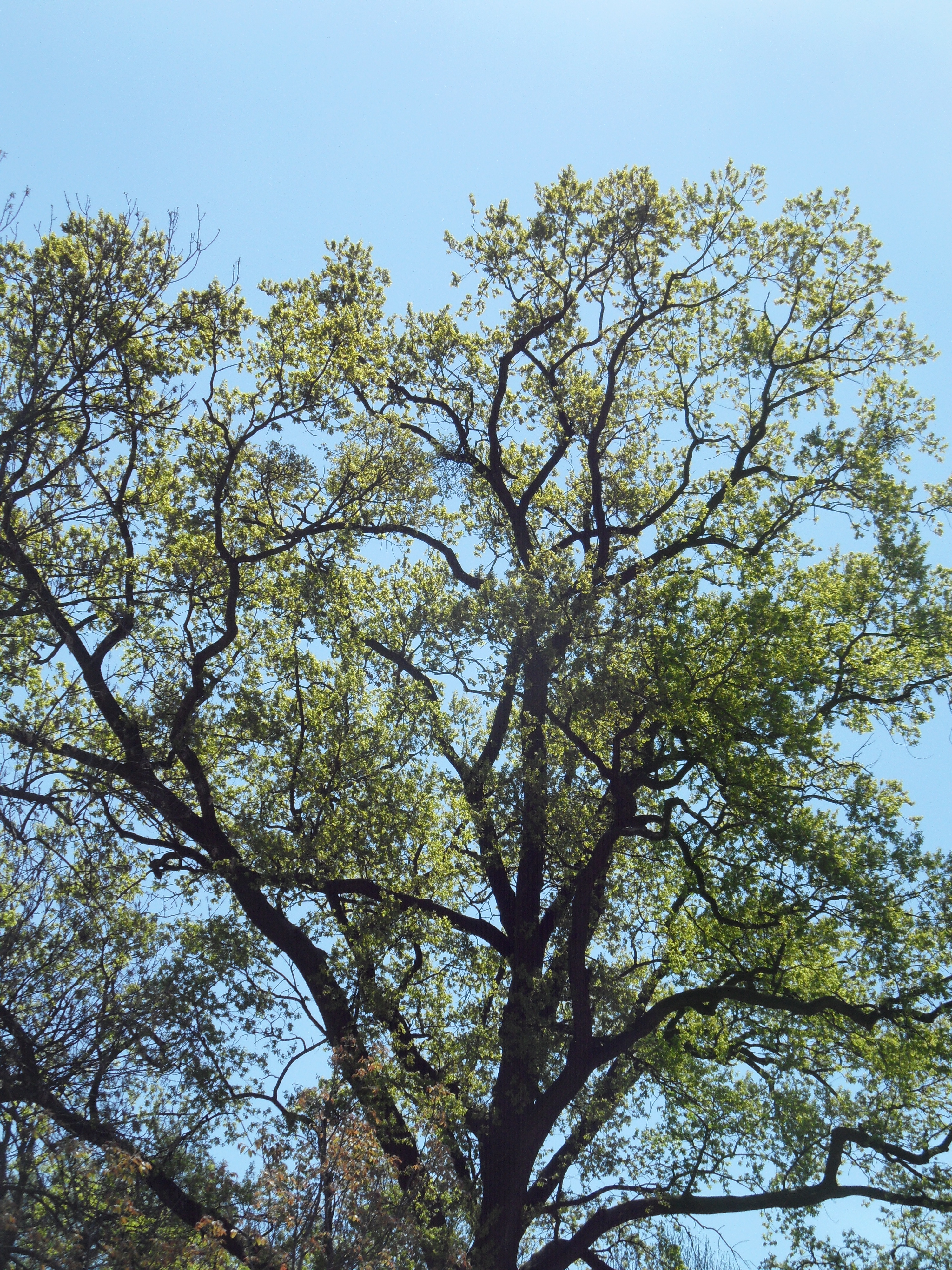 Uhříněves, Famous tree Quercus robur, near Říčanka river and House No. 30/22: View from North-West. Prague, the Czech Republic.